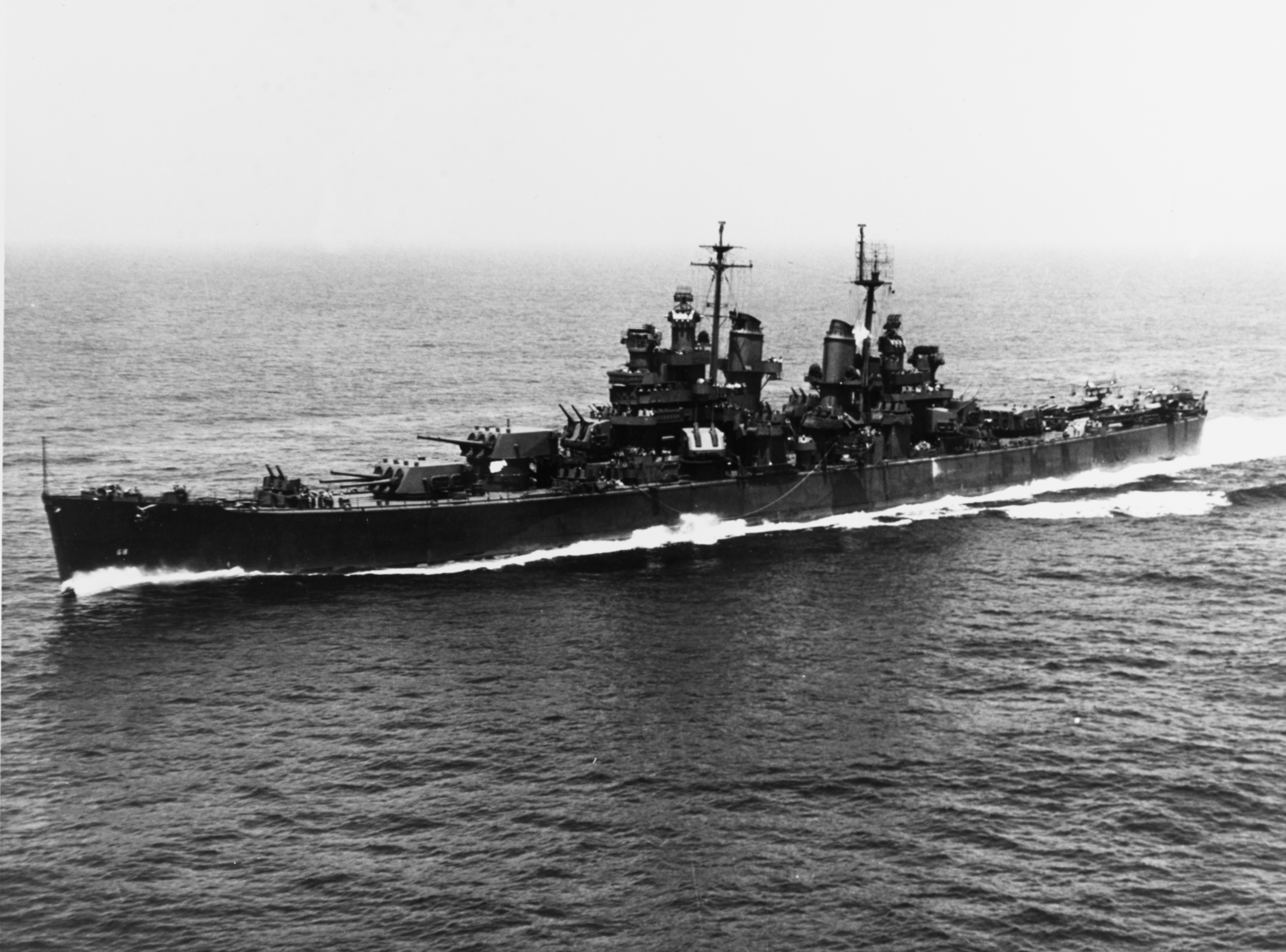 The U.S. Navy heavy cruiser USS Baltimore (CA-68) underway off the coast of Massachusetts (USA) on 18 June 1943.